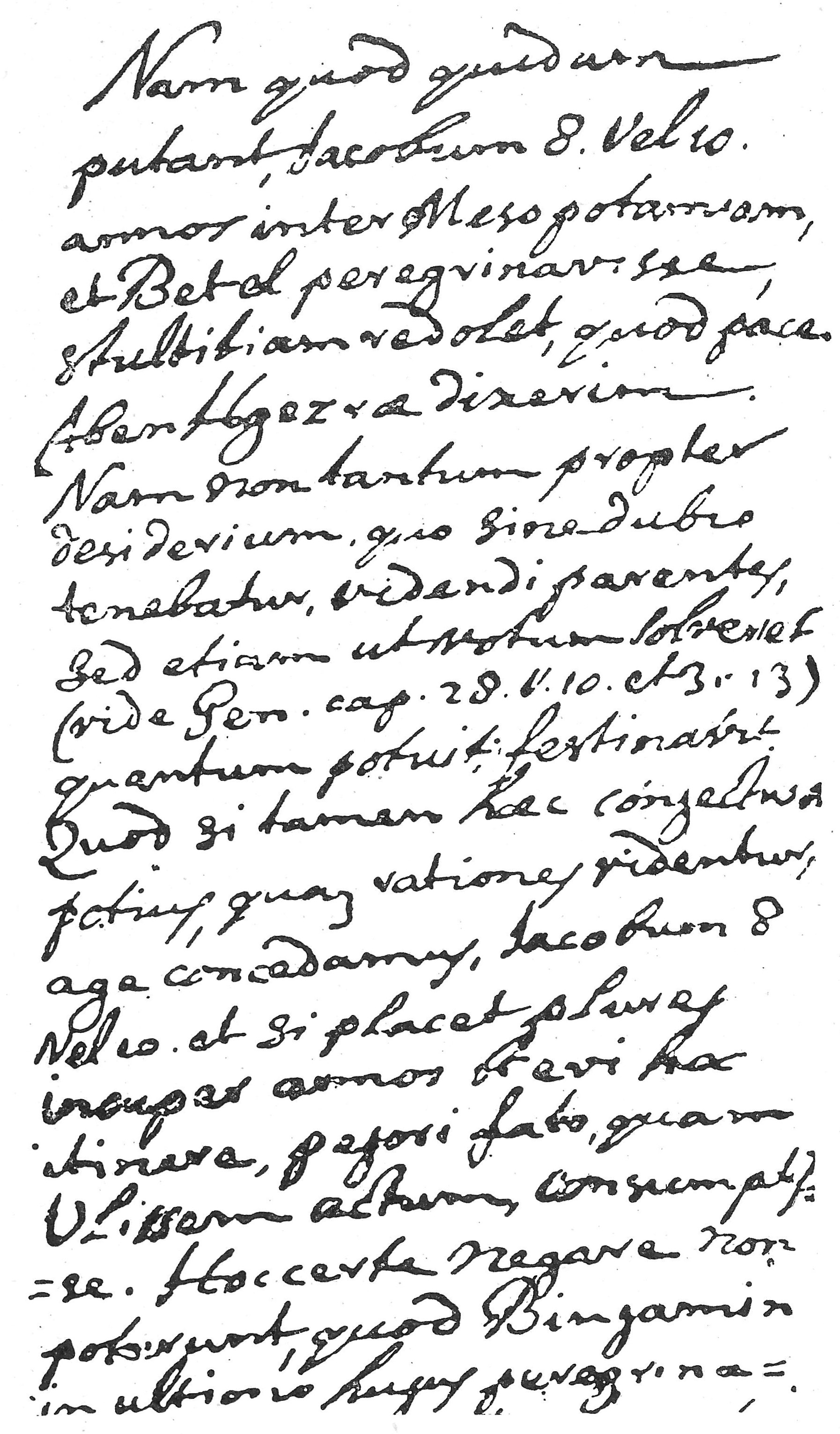 Benedictus de Spinoza: Manuscript notes Tractatus theologico-politicus (1670), Chapter 9. Refer to the transcription above.